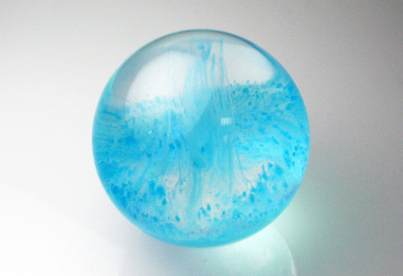 Cast Acrylic